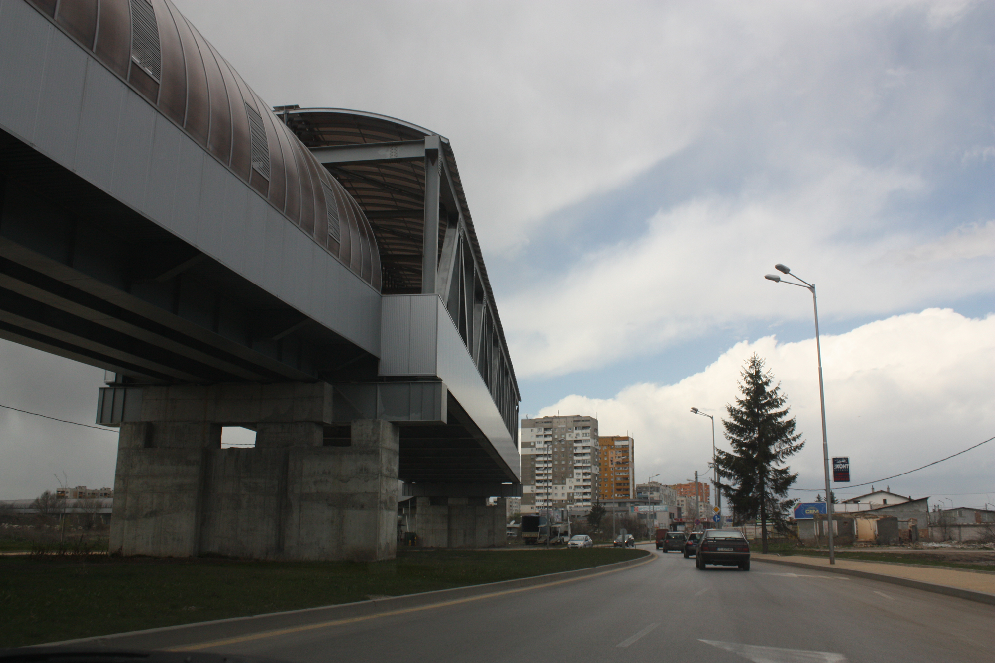 Bulevard Lomsko Shose at Lomsko Shose Metro station